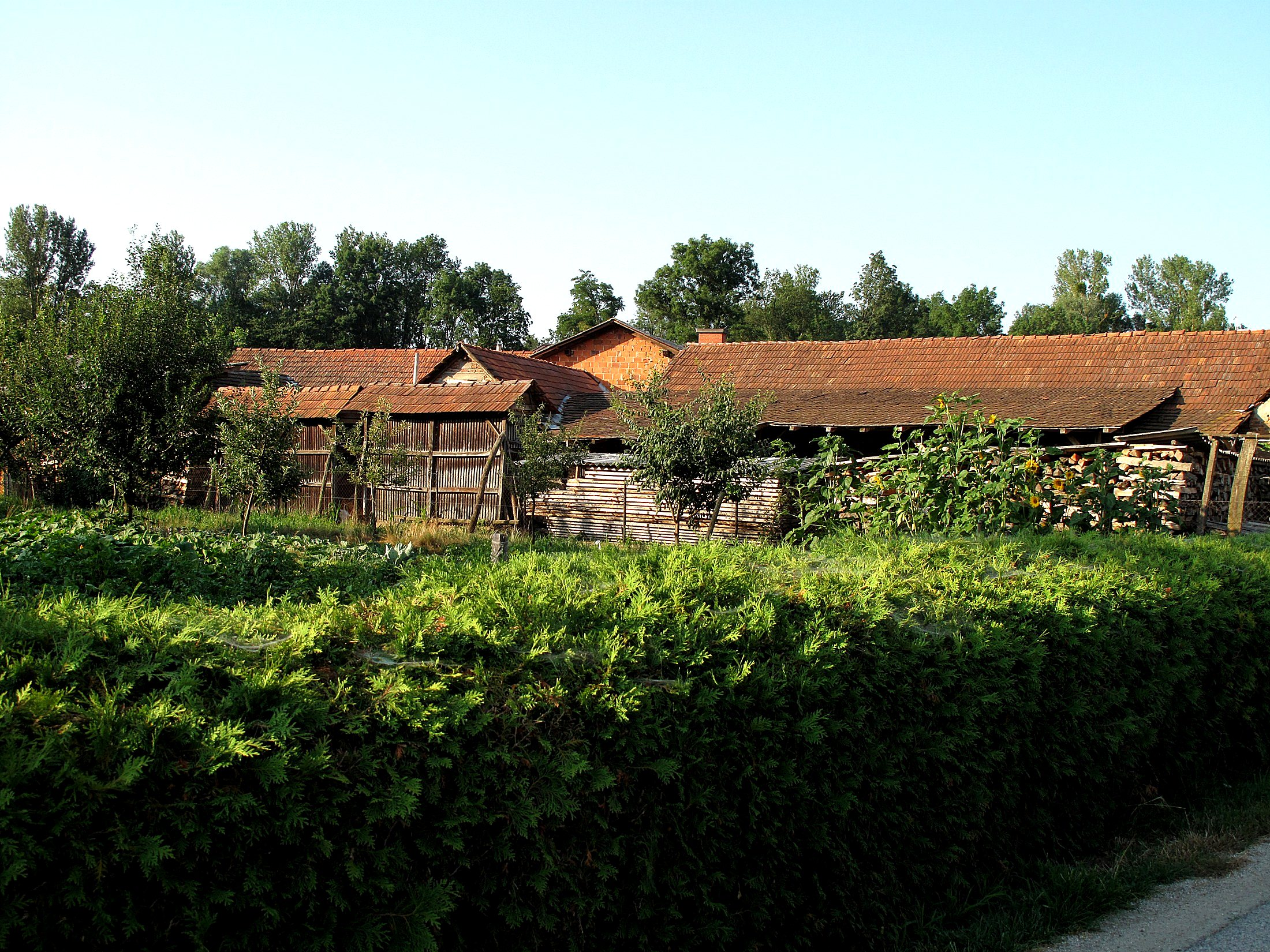 Gornja Bistrica - Prekmurje - Slovenija